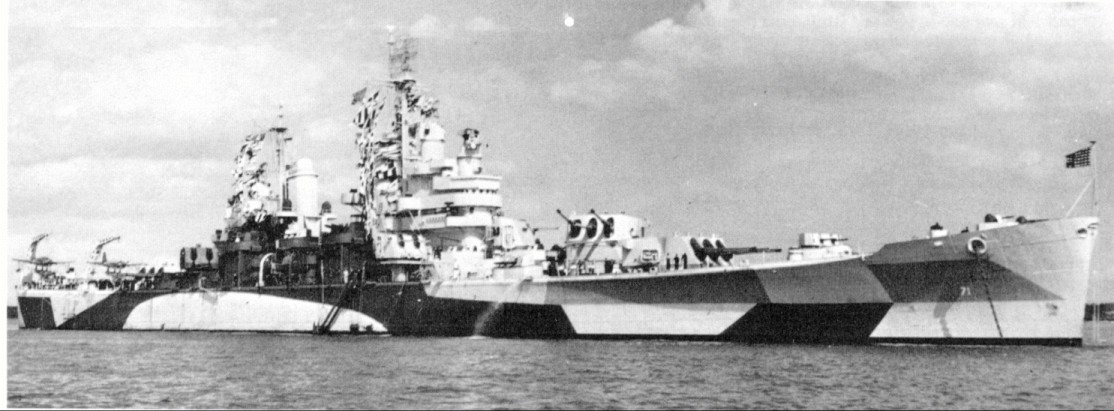 The U.S. Navy heavy cruiser USS Quincy (CA-71) in early 1944. She is painted in Camouflage Measure 31-32-33 series, Design 18D.